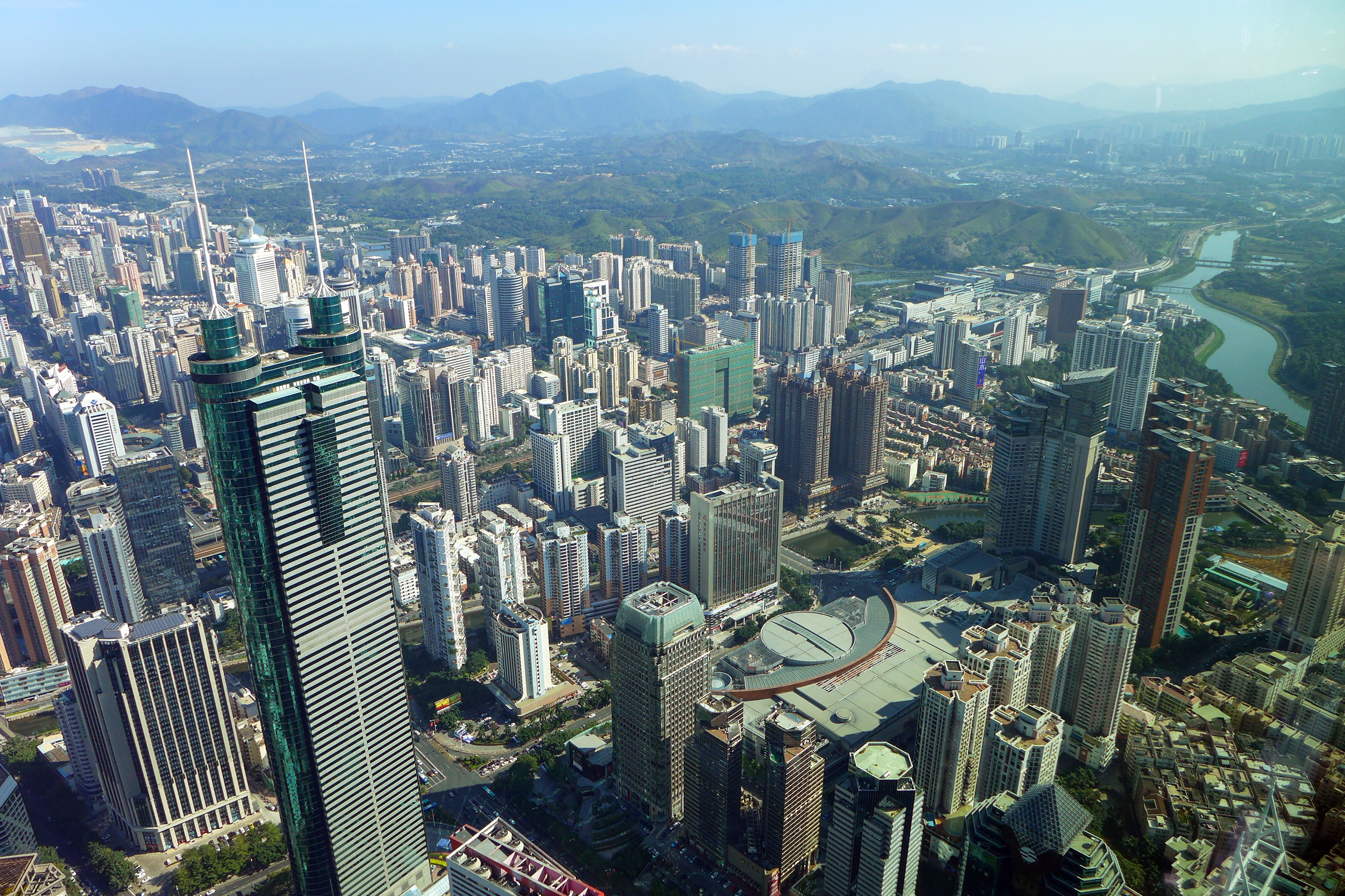 Lo Wu District